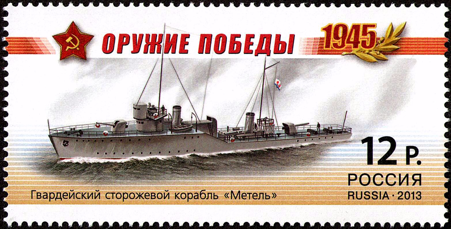 The weapon of the Victory (the ongoing stamp series). Issue V: Warships. The Soviet guard ship Metel (Uragan-class). Launched 1934. Pacific Fleet of the Soviet Navy. In 1945 Metel was awarded the status of a Guards unit. The stamp of Russia, 12.00 Rubles, 8 May 2013, PTC Marka Catalogue No 1695, Michel No 1928. Coated paper. Offset printing, multicoloured. Perforation: comb 13½×13½. Size of the stamp: 65×32.5 mm. Print run: 465,000.